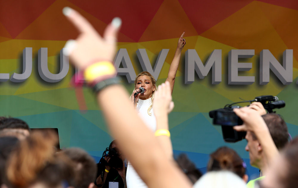 Belgrade Pride Parade 2016, Nataša Bekvalac